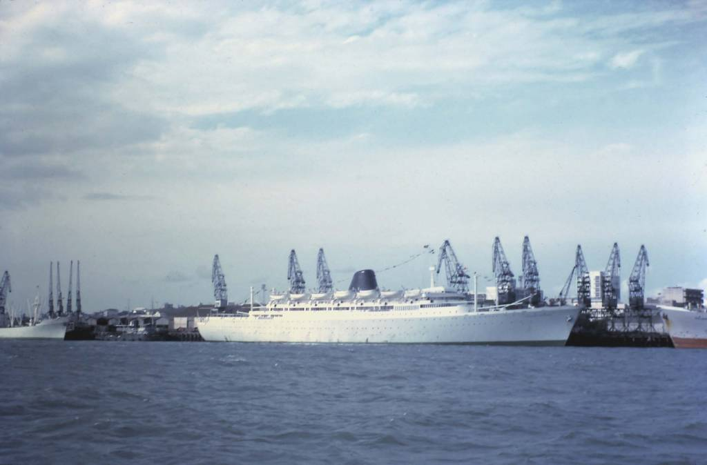 The liner Principe Perfeito moored at Lourenço Marques on December 25, 1967.